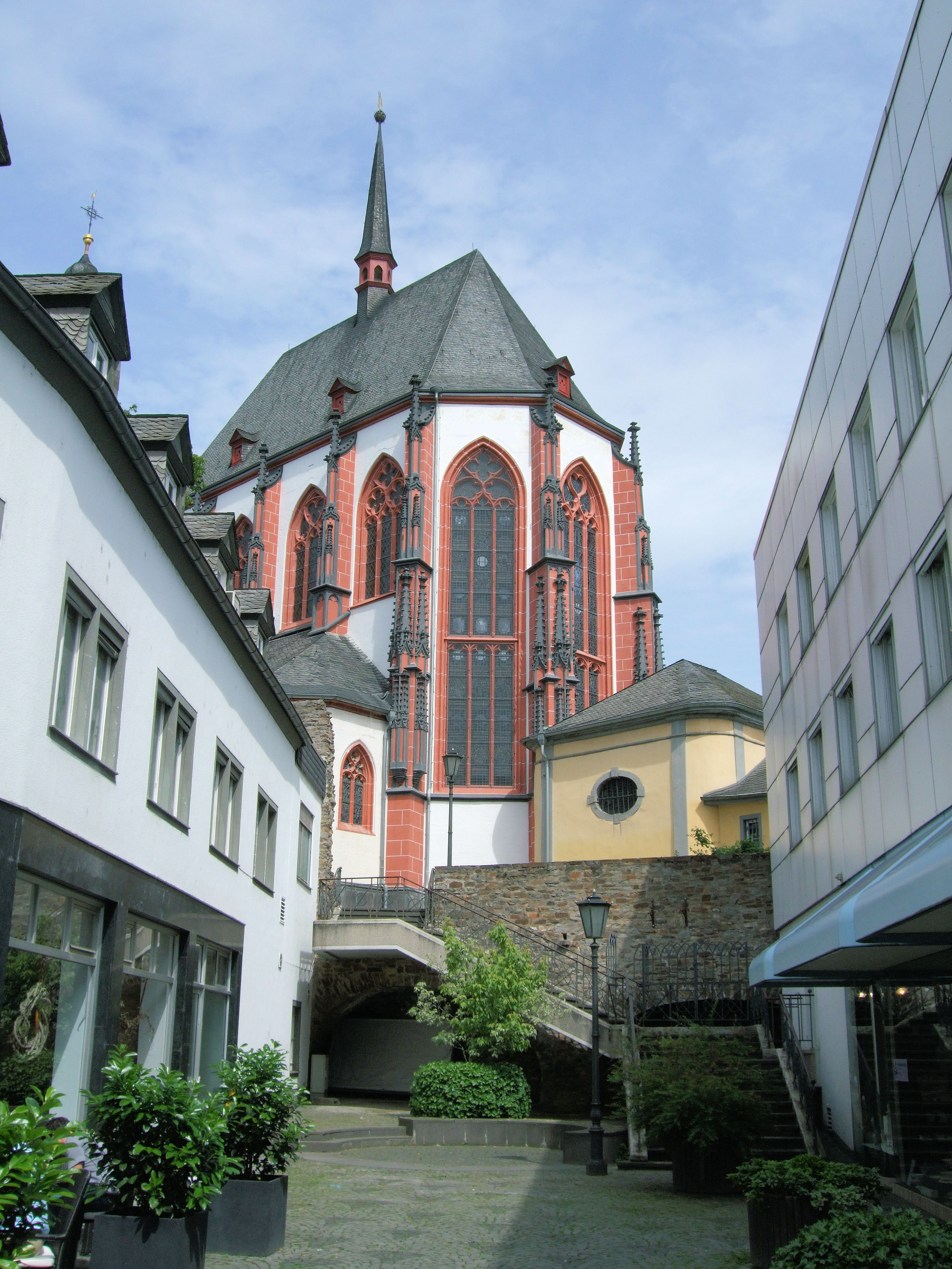 Church Of Our Lady, Koblenz, Germany